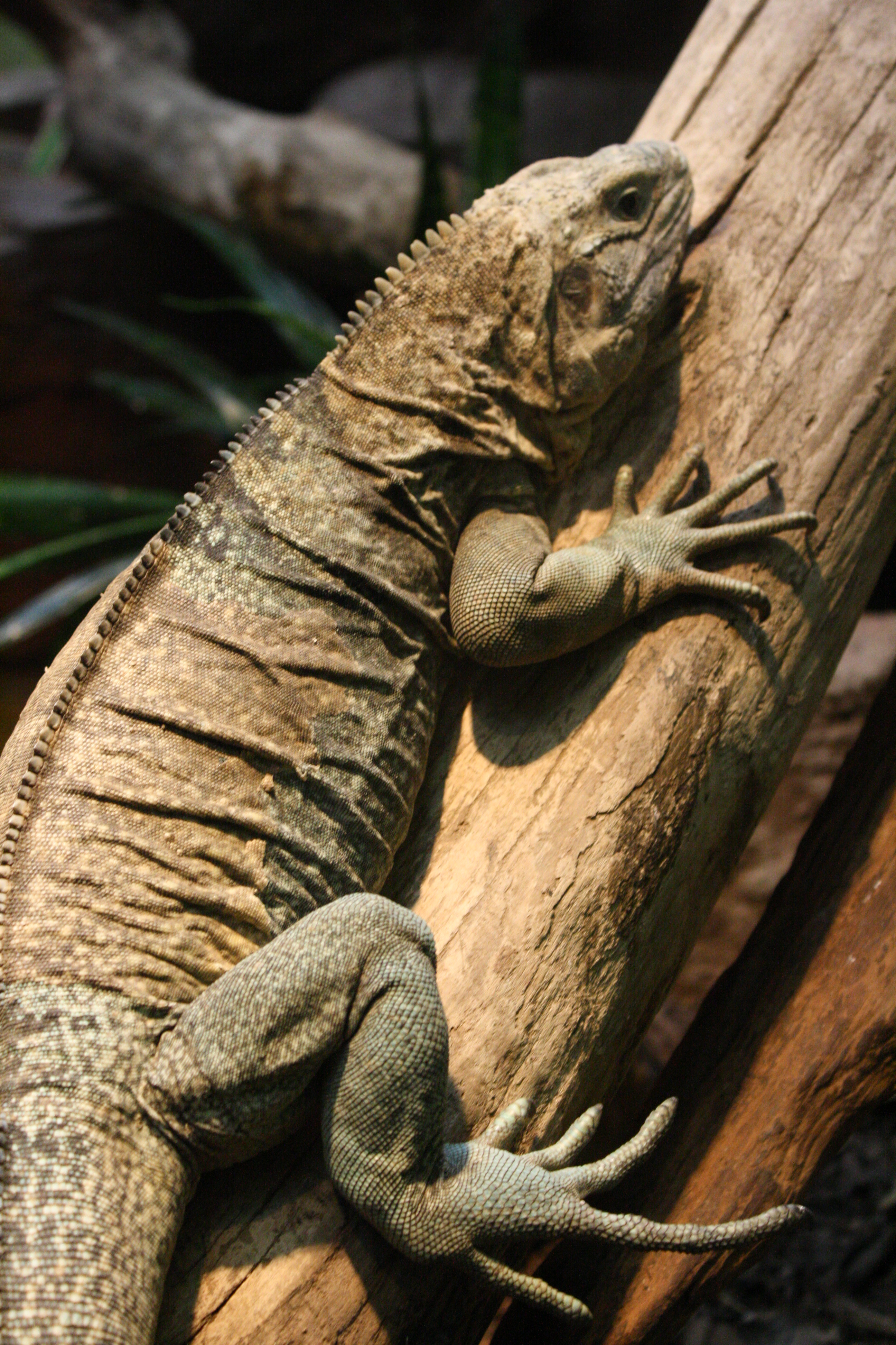 jamaican iguana on tree